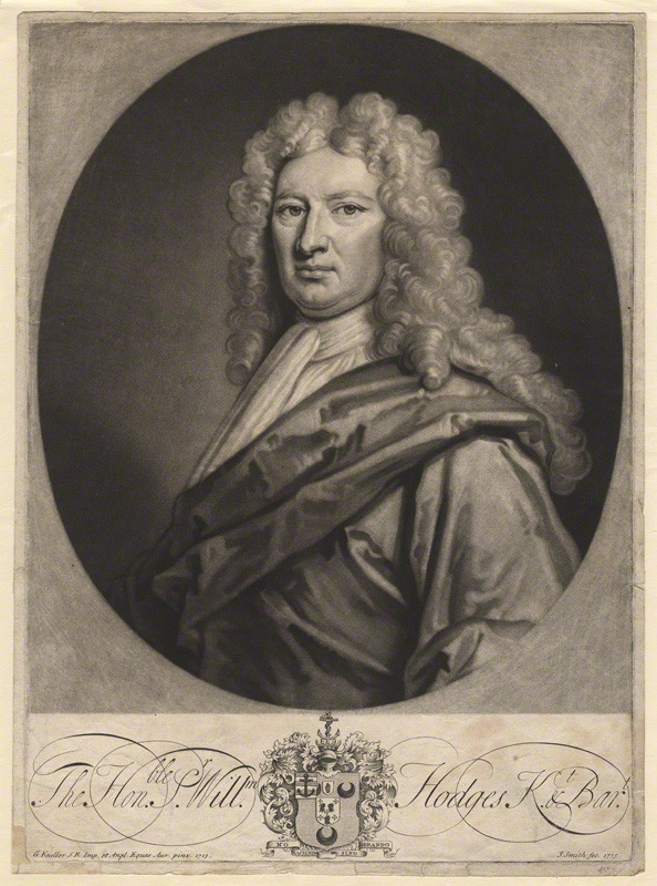 Portrait of Sir William Hodges, 1st Baronet (1645?–1714), English merchant.